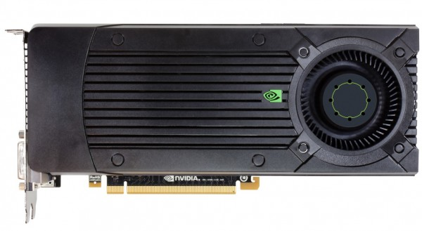 NVIDIA's GTX 760 video card.